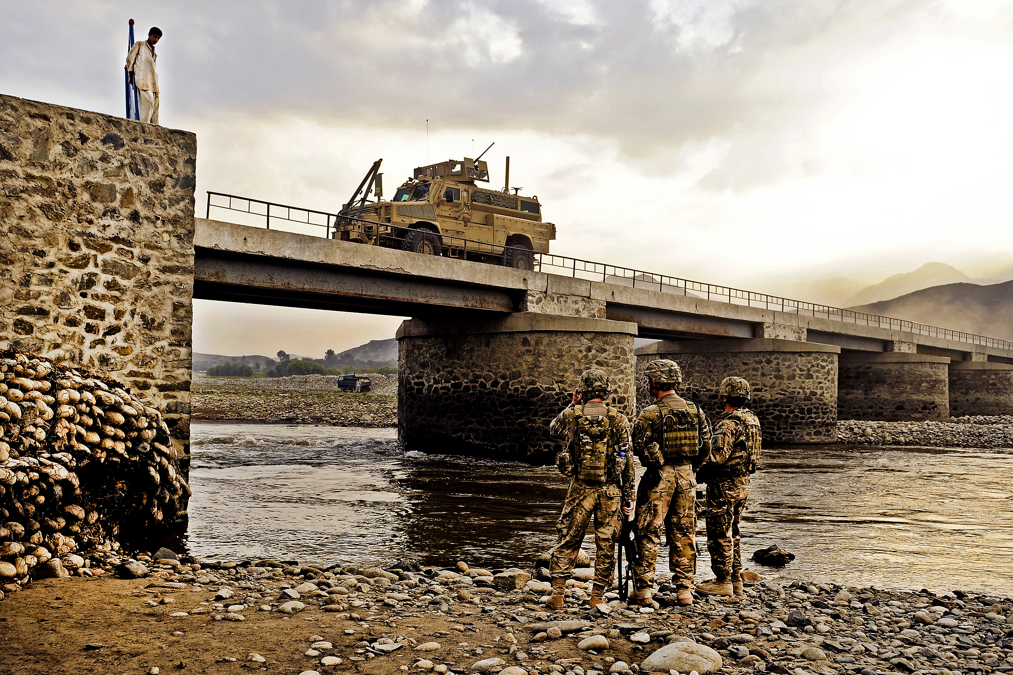 U.S. Air Force Capt. Jon Polston and Air Force 1st Lt. Scott Adamson inspect the underside of the Jugi bridge as traffic squeezes through the narrow roadway in Mehtar Lam in Laghman province, Afghanistan, Sept. 7, 2011. Polston and Adamson are engineers assigned to the Laghman Provincial Reconstruction Team. U.S. Air Force photo by Staff Sgt. Ryan Crane